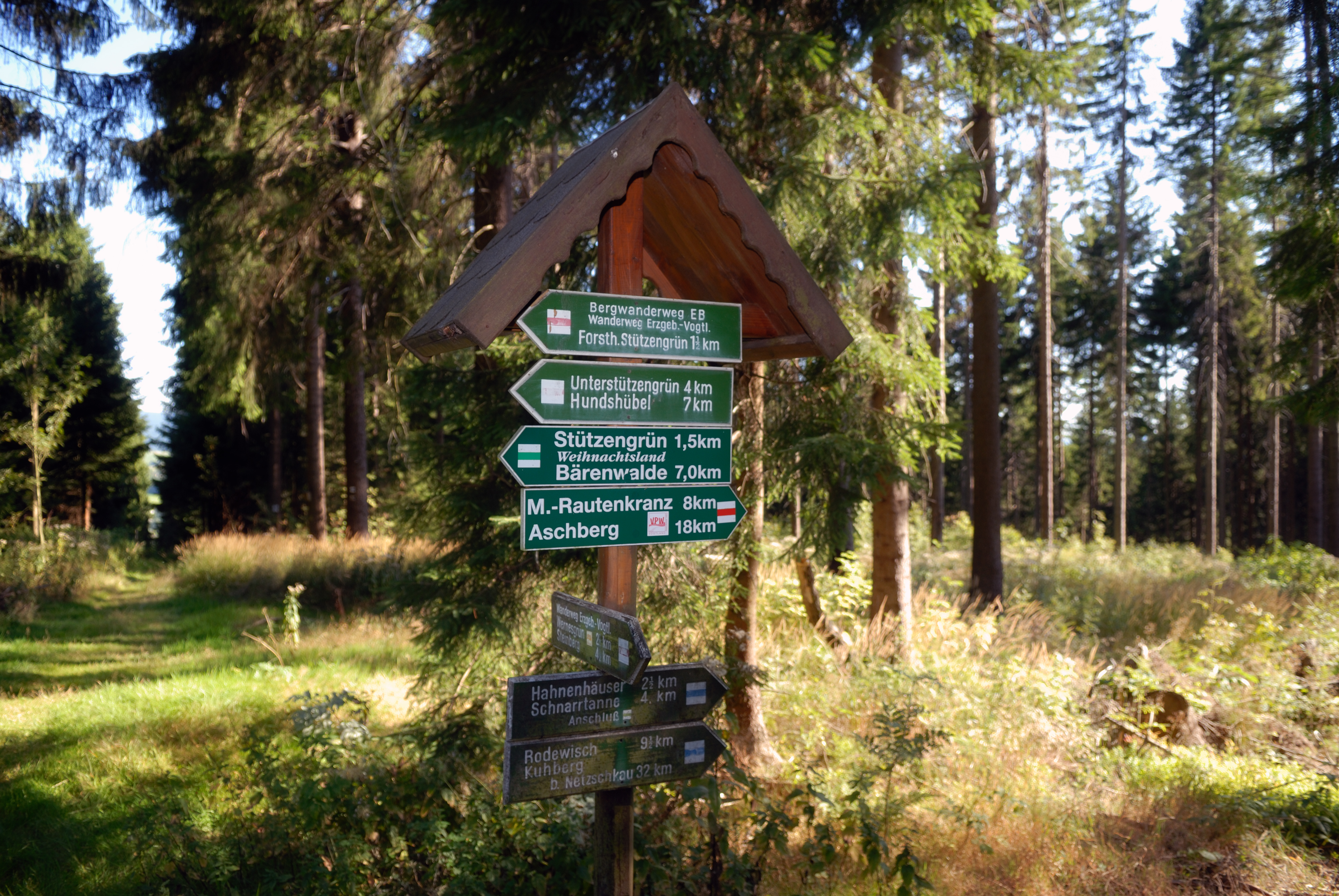 This image shows a few hiking markers at the Kuhberg ("cow mountain") in Stützengrün, Saxony, Germany.